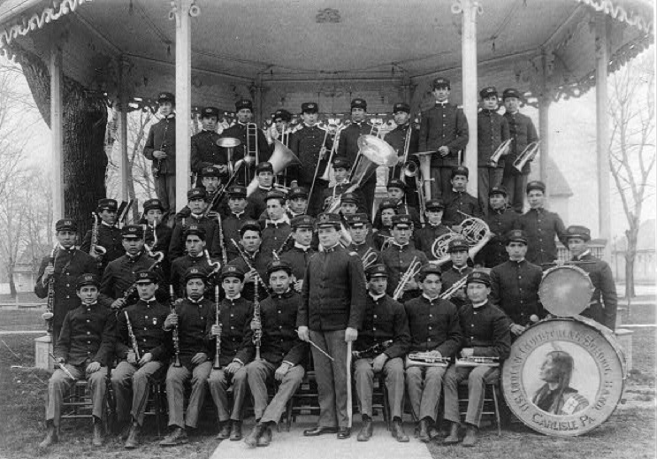 Dennison Wheelock's Bandstand, Carlisle Indian School, Carlisle, PA Other information No.